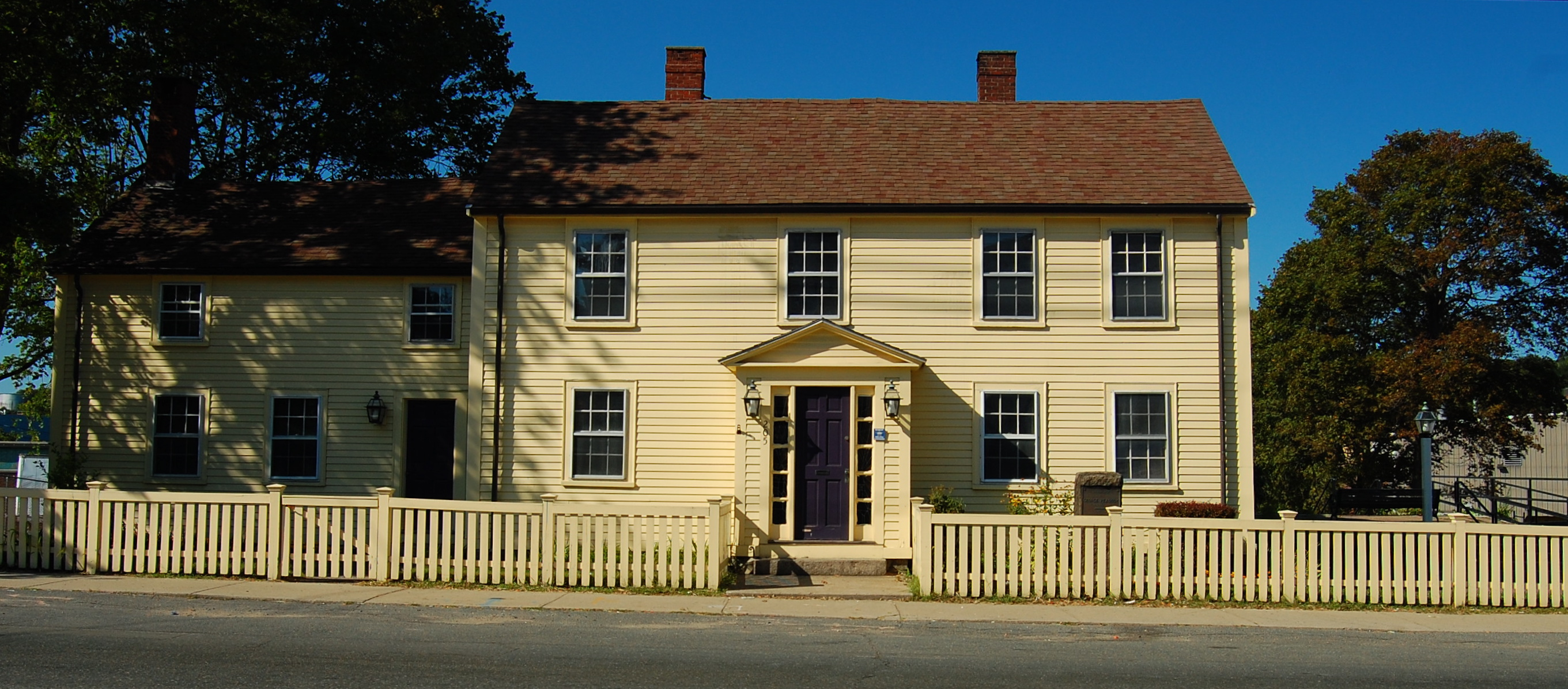 Home of George Peabody, namesake of Peabody, Massachusetts. Now a museum owned by the city.